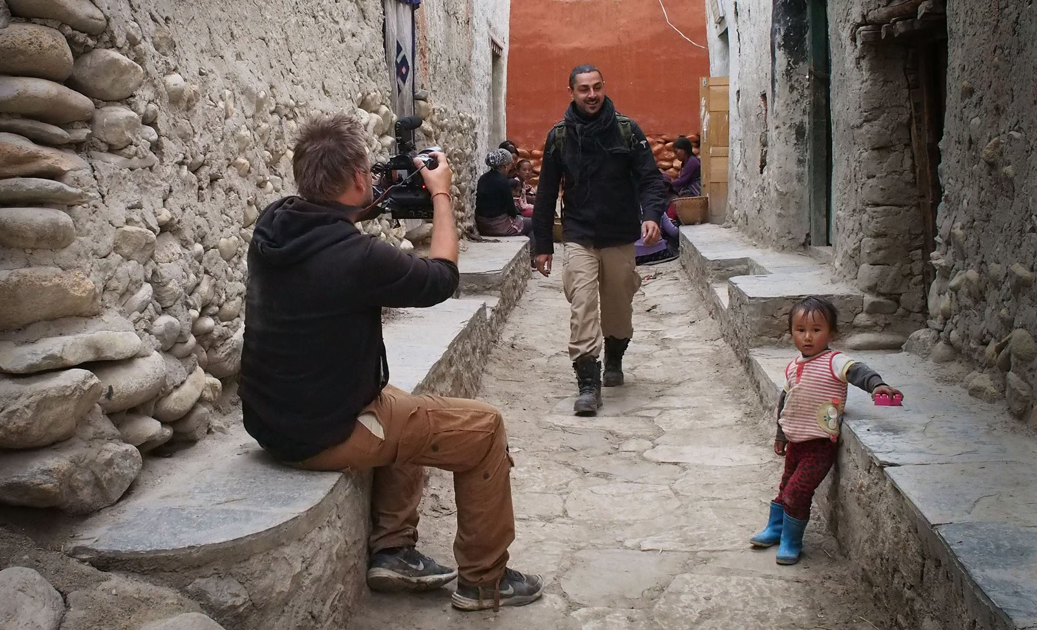 Tuukka Tiensuu filming Arman Alizad in Lo Matang, Nepal. Episode 6 of Season 1.